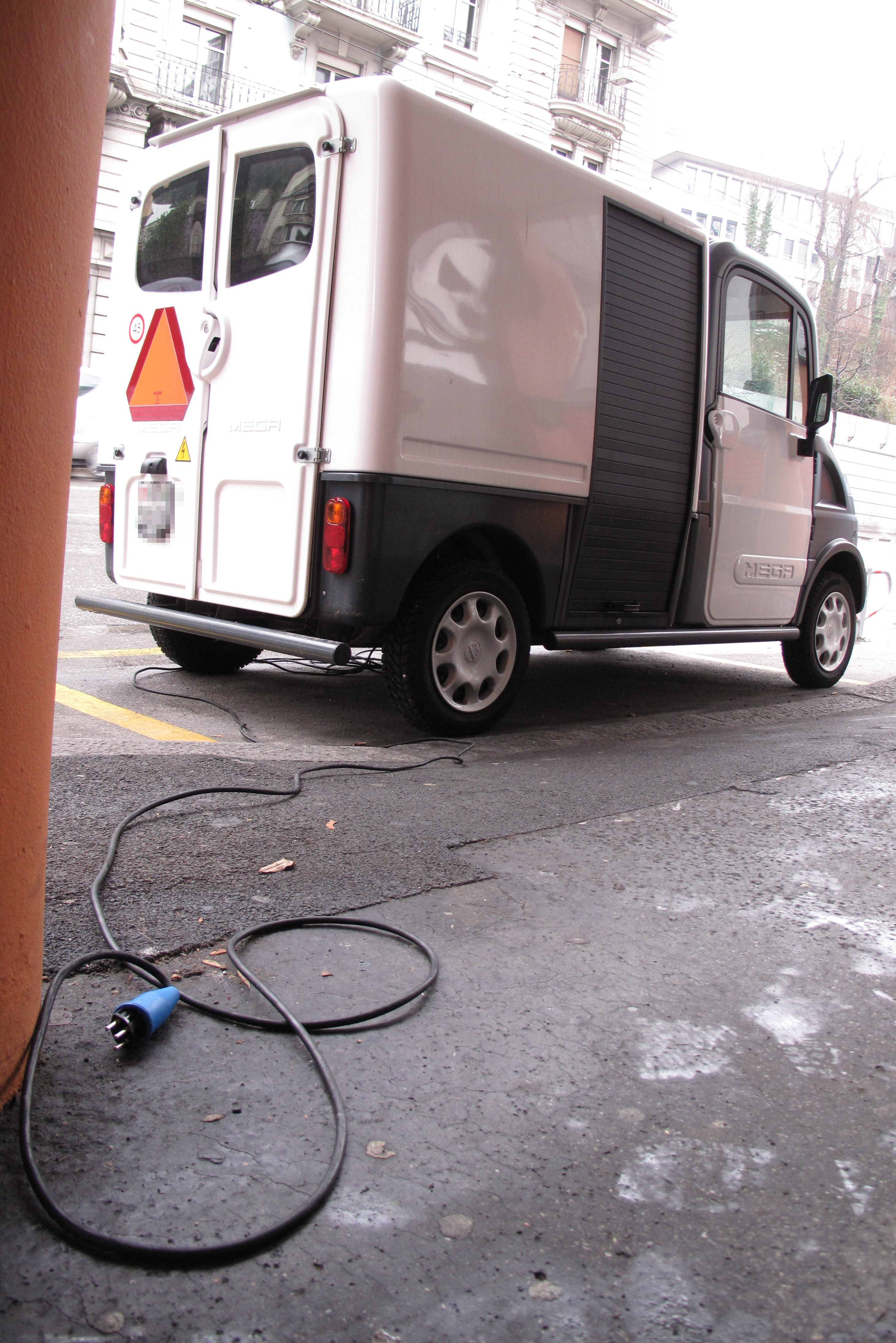 Mega MultiTruck